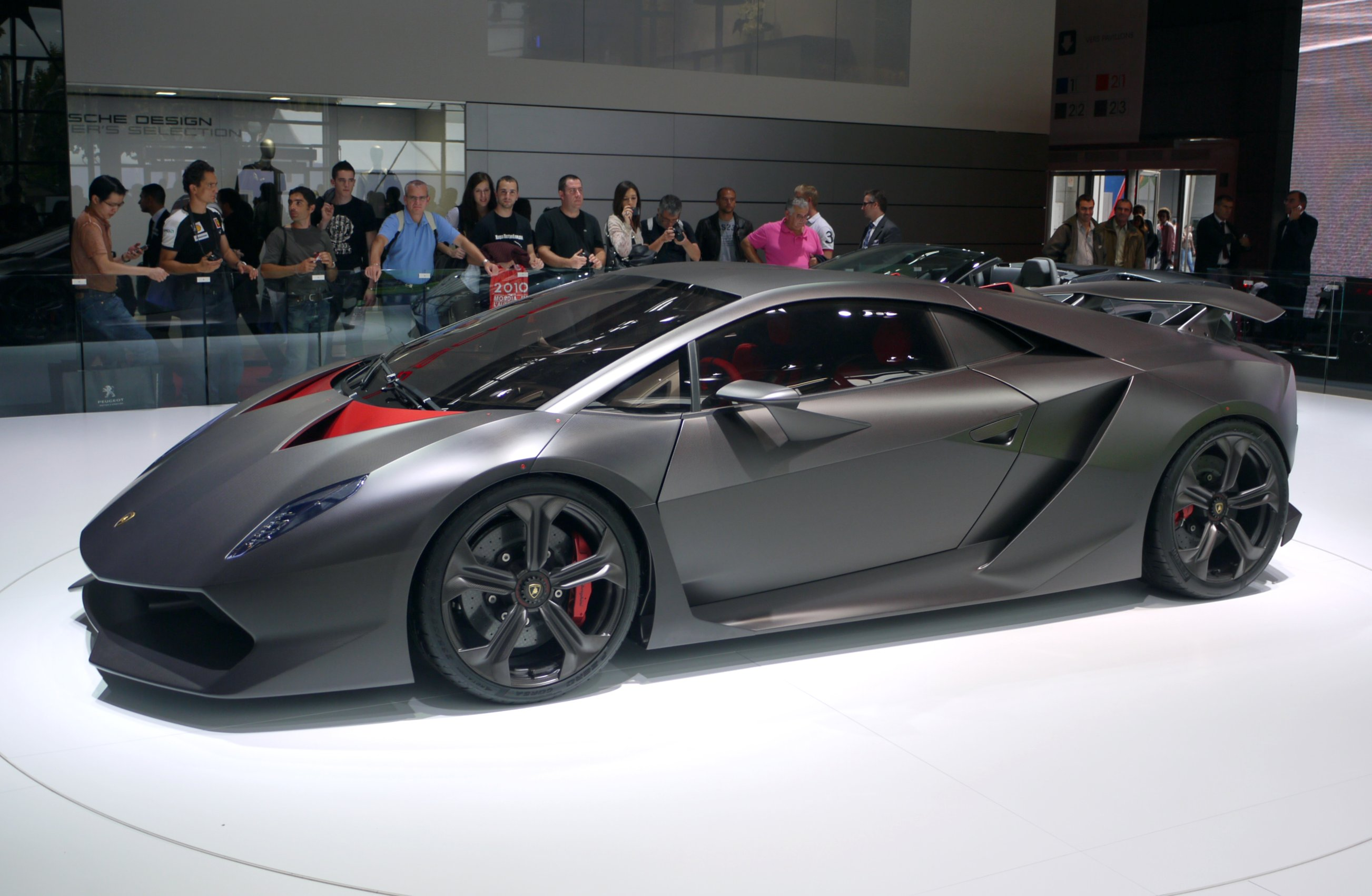 Lamborghini Sesto Elemento concept. The Sesto Elemento is equipped with a 6-speed paddle-shifted manual transmission and all-wheel-drive system, mated to a 5.2-litre V10 engine borrowed from the Lamborghini Gallardo, generating 570 horsepower and 398 ft-lb of torque. The chassis, body, driveshaft and suspension components are made of carbon fiber, reducing the overall weight to a mere 2,202 lbs, making it the lightest car Lamborghini has ever produced. Perspired air is released through 10 distinctive hexagonal holes in the engine cover, while two intakes funnel cool air into the mid-mounted engine compartment. The Sesto Elemento's high amount of horsepower combined with low overall weight translate to a power-to-weight ratio of just 3.86 lbs/hp. Lamborghini claims a 0–100 km/h (0-62 mph) acceleration time of just 2.5 seconds, and a top speed in excess of 300 km/h (186 mph). The Sesto Elemento's name stems from the car's extensive use of carbon fiber, carbon being the sixth element in the periodic table of elements.